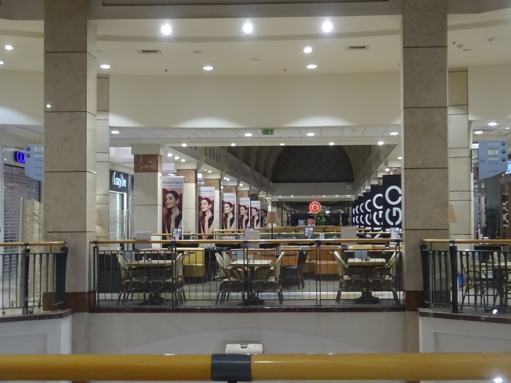 View of the second floor of the mall from the